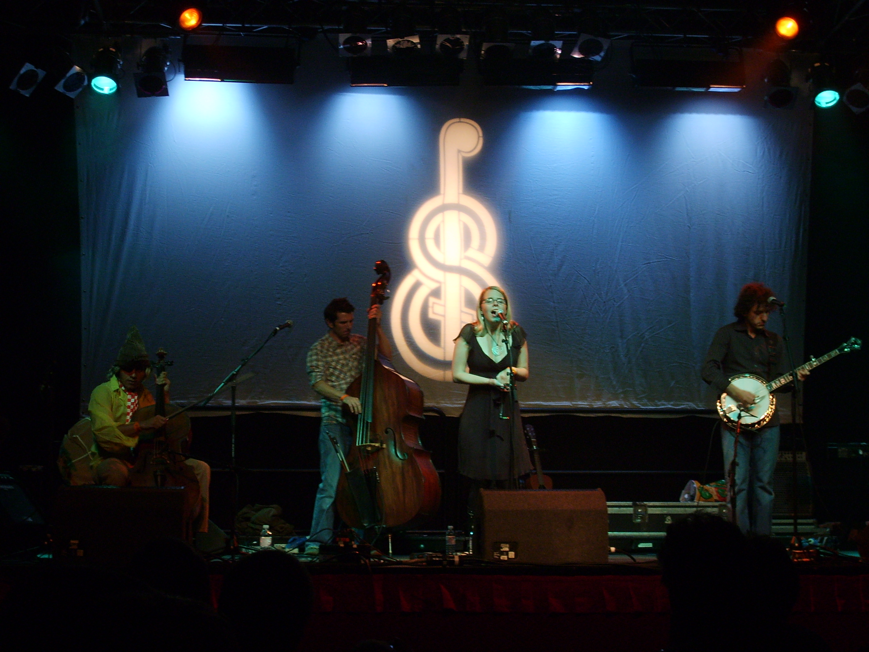 Crooked Still performing in Lerwick at the Shetland Folk Festival. Left to Right: Rushad Eggleston, Corey DiMario, Aoife O'Donovan & Gregory Liszt.